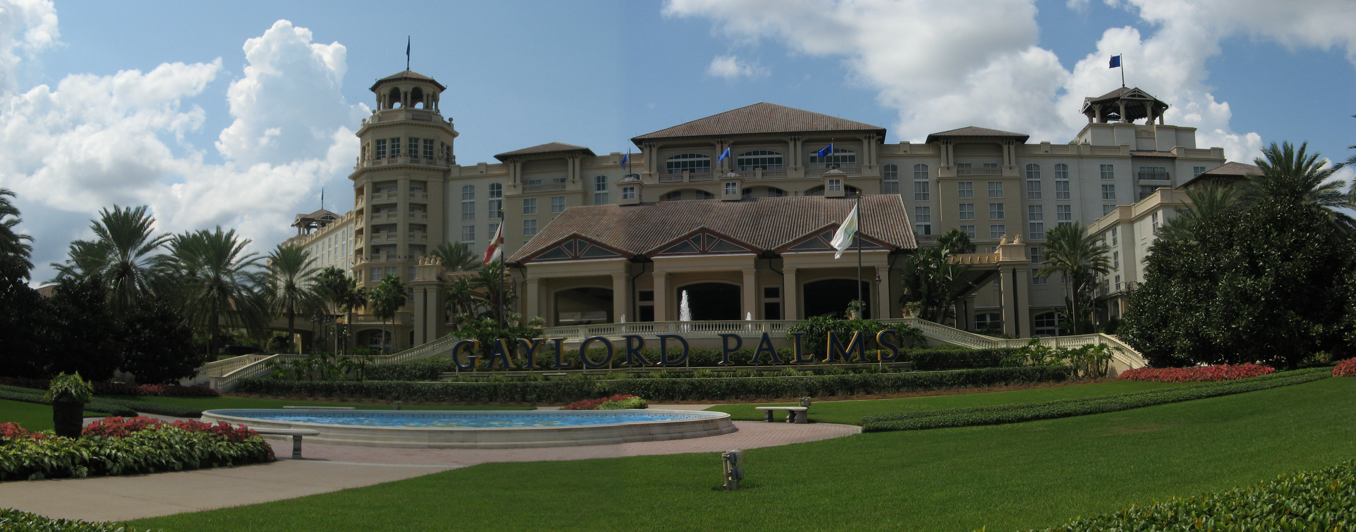 A Panorama of the exterior of the front of the Gaylord Palms